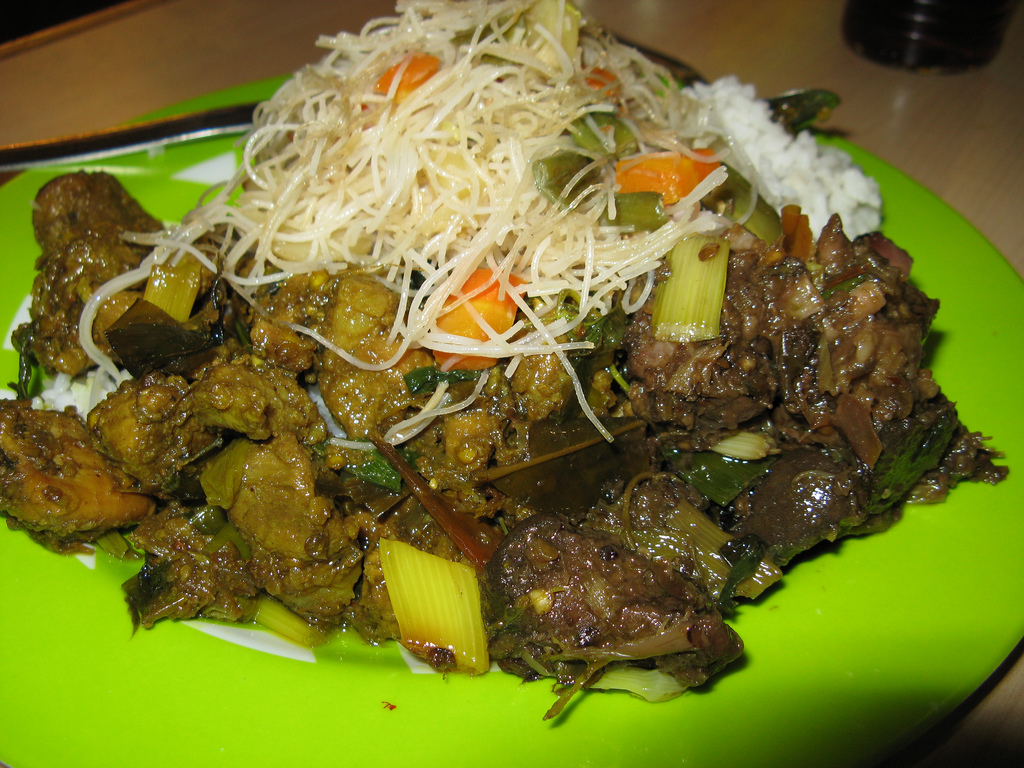 Brighter meat on the left is pork, the darker one on the right is dog meat at a restaurant specialised in Manado (North Sulawesi) food.